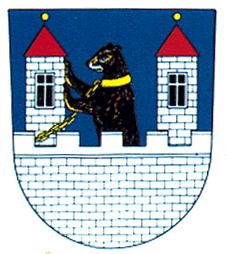 Coat of arms of Sedlice, Czechia.